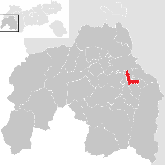 District Landeck